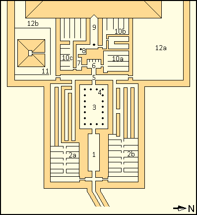 Layout of Pepi I's mortuary temple. In order: 1) Entrance hall with (2a and b) flanking storerooms to the north and south; 3) Courtyard with (4) columns; 5) Transverse corridor; 6) Five niche statue chapel; 7) Vestibule; 8) Antichambre carrée; 9) Offering hall with (10a-c) flanking storerooms; 11) Cult pyramid enclosure; 12a and b) Courtyard surround the main pyramid Based on Lehner, Mark (2008). The Complete Pyramids New York: Thames & Hudson p. 158